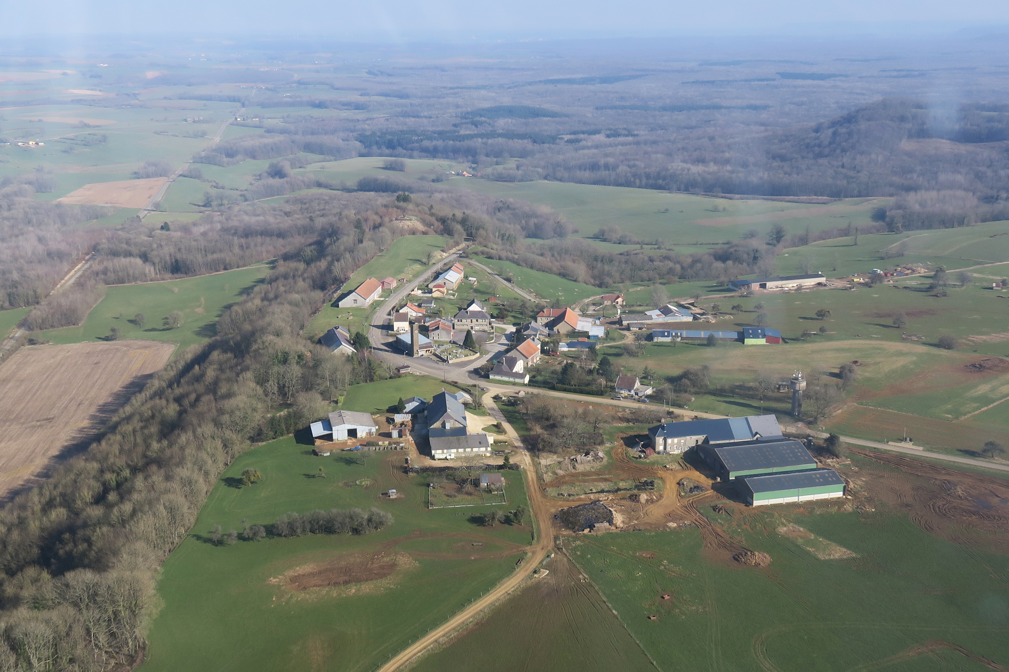 Stonne - March (mars) 2018